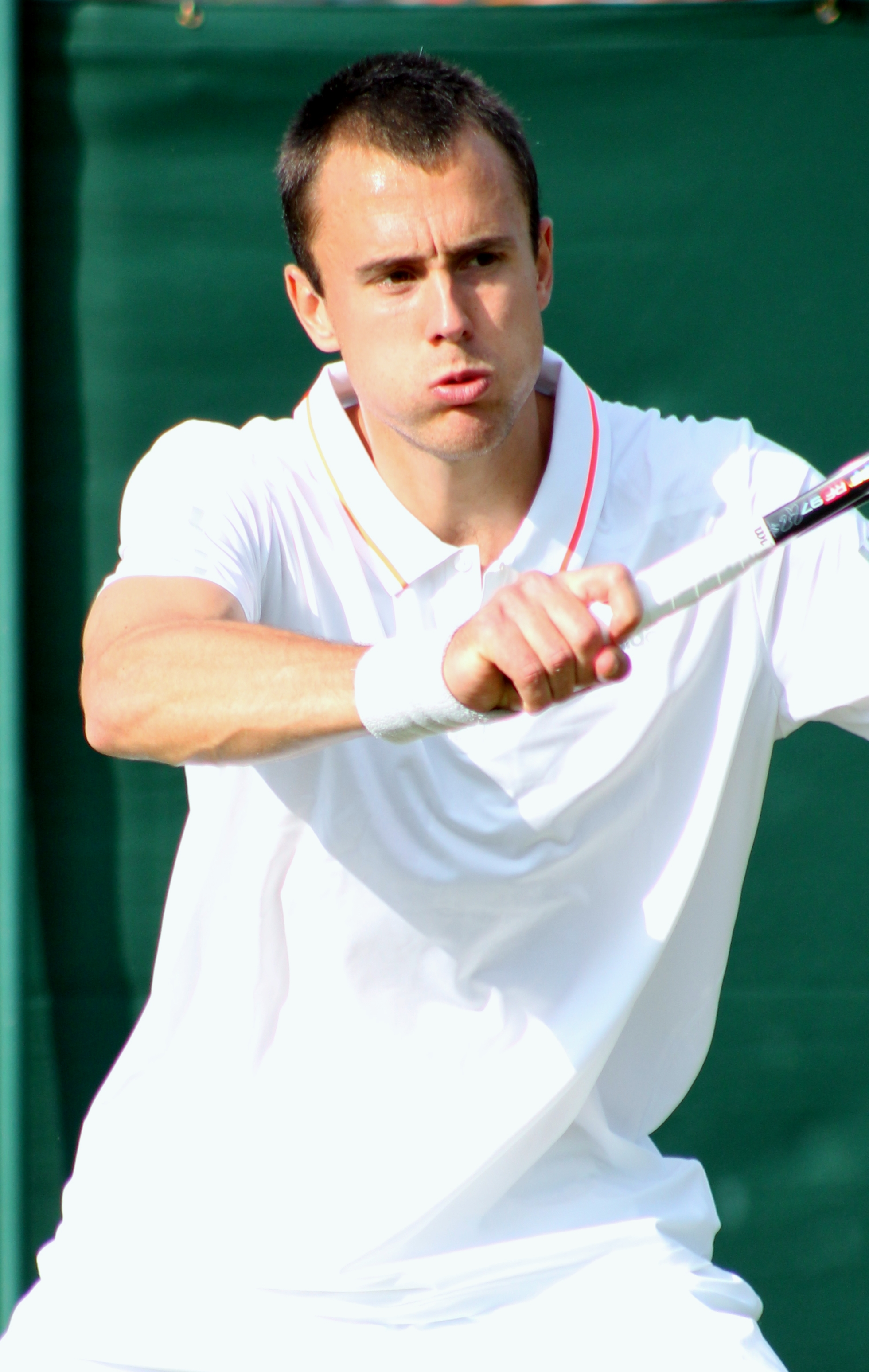 Walsh WMQ15 (8)